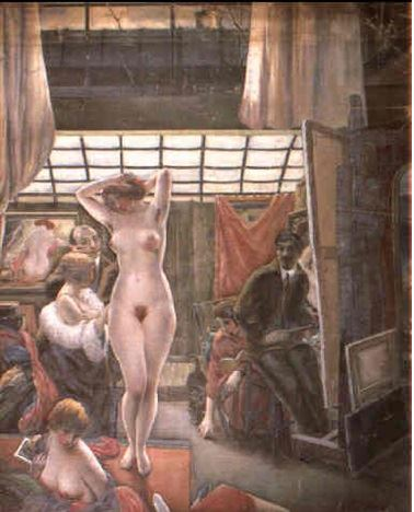 The Artist in his Studio